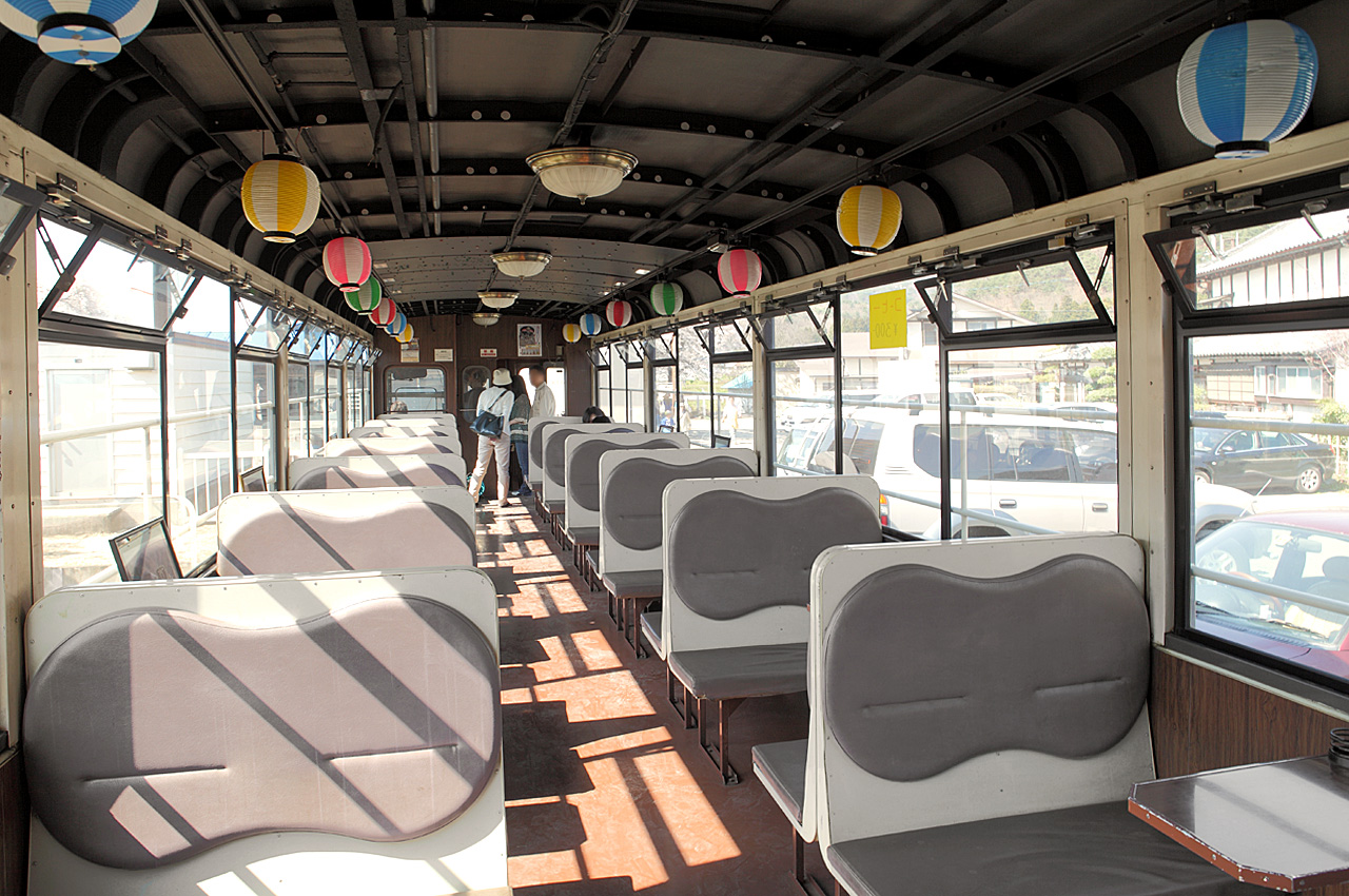 Interior of Aizu Railway AT-301 DMU